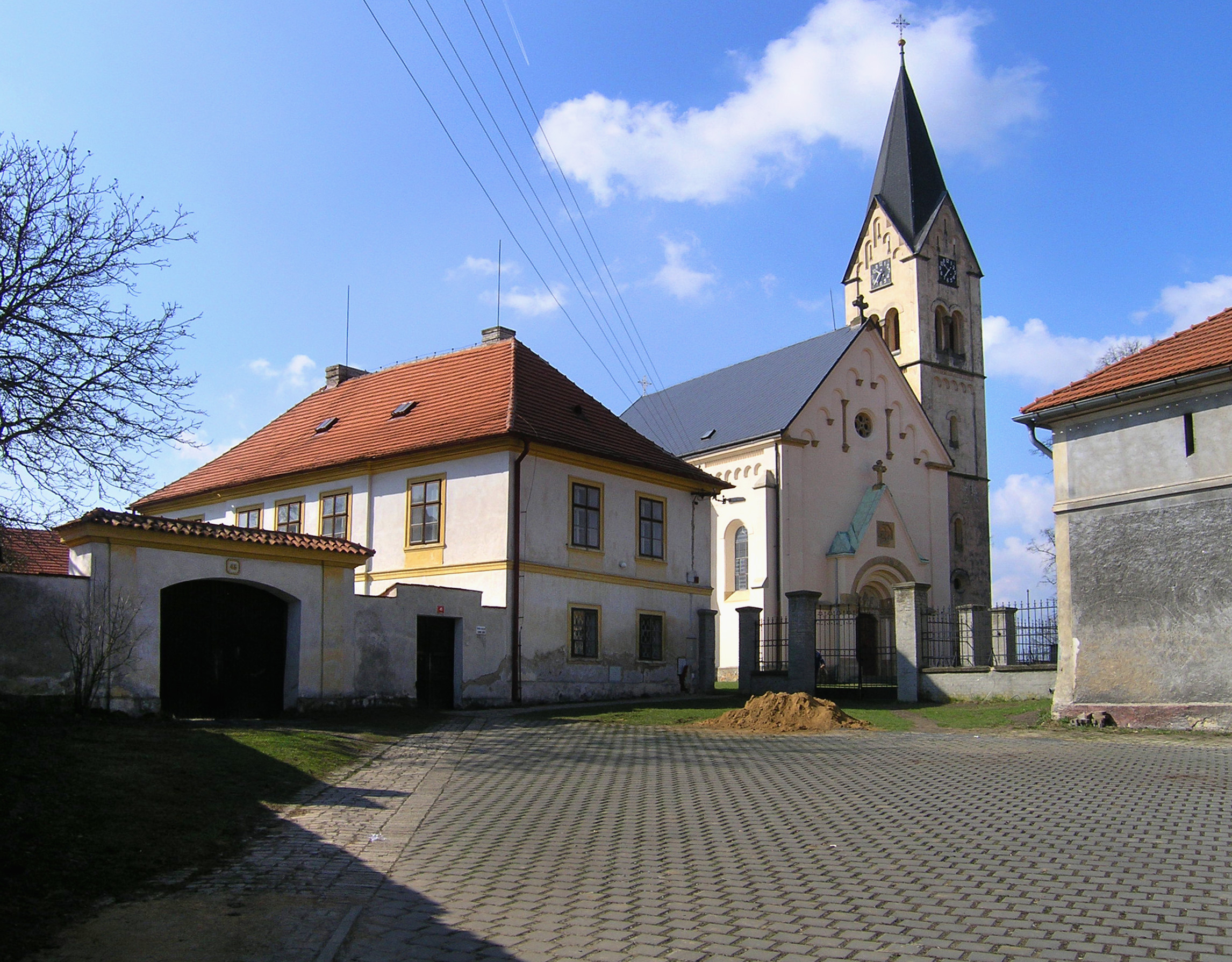 Church and presbytery in Úhonice, Czech Republic